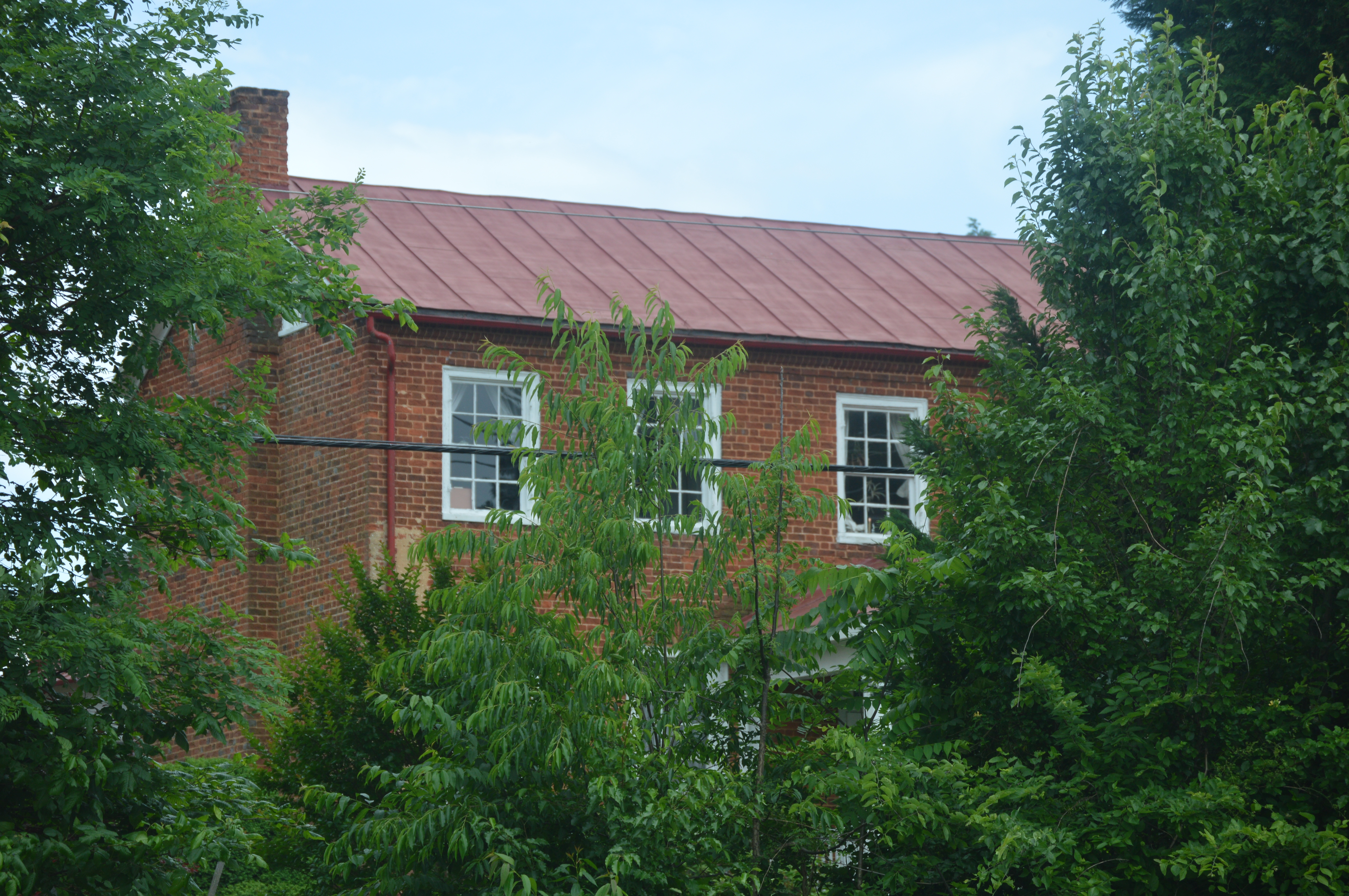 Front of the Holland-Duncan House, located on State Route 122 east of Burnt Chimney in Franklin County, Virginia, United States. Built in 1830, it is listed on the National Register of Historic Places.